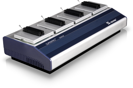 Gang programmer used for production of programmable integrated circuits. SuperPro5004GP